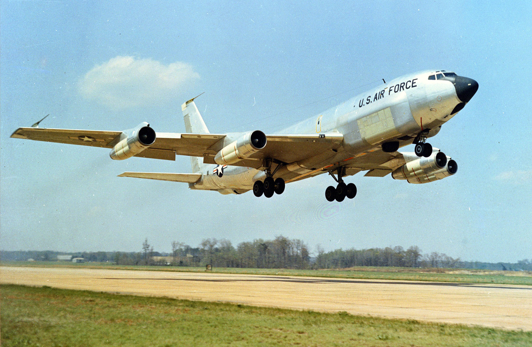 A U.S. Air Force Boeing RC-135C Big Team taking off. The ten RC-135Bs were modified and re-designated RC-135C aircraft used for strategic reconnaissance duties, equipped with the AN/ASD-1 electronic intelligence (ELINT) system. This system was characterized by the large "cheek" pods on the forward fuselage containing the Automated ELINT Emitter Locating System (AEELS), as well as numerous other antennae and a camera position in the refuelling pod area of the aft fuselage. When the RC-135C was fully deployed, the Strategic Air Command was able to retire its fleet of Boeing RB-47H Stratojets from active reconnaissance duties. The RC-135Cs played an important role in gathering electronic intelligence on North Vietnamese air defense systems. It was nicknamed the "Chipmunk" for its large "cheeks".